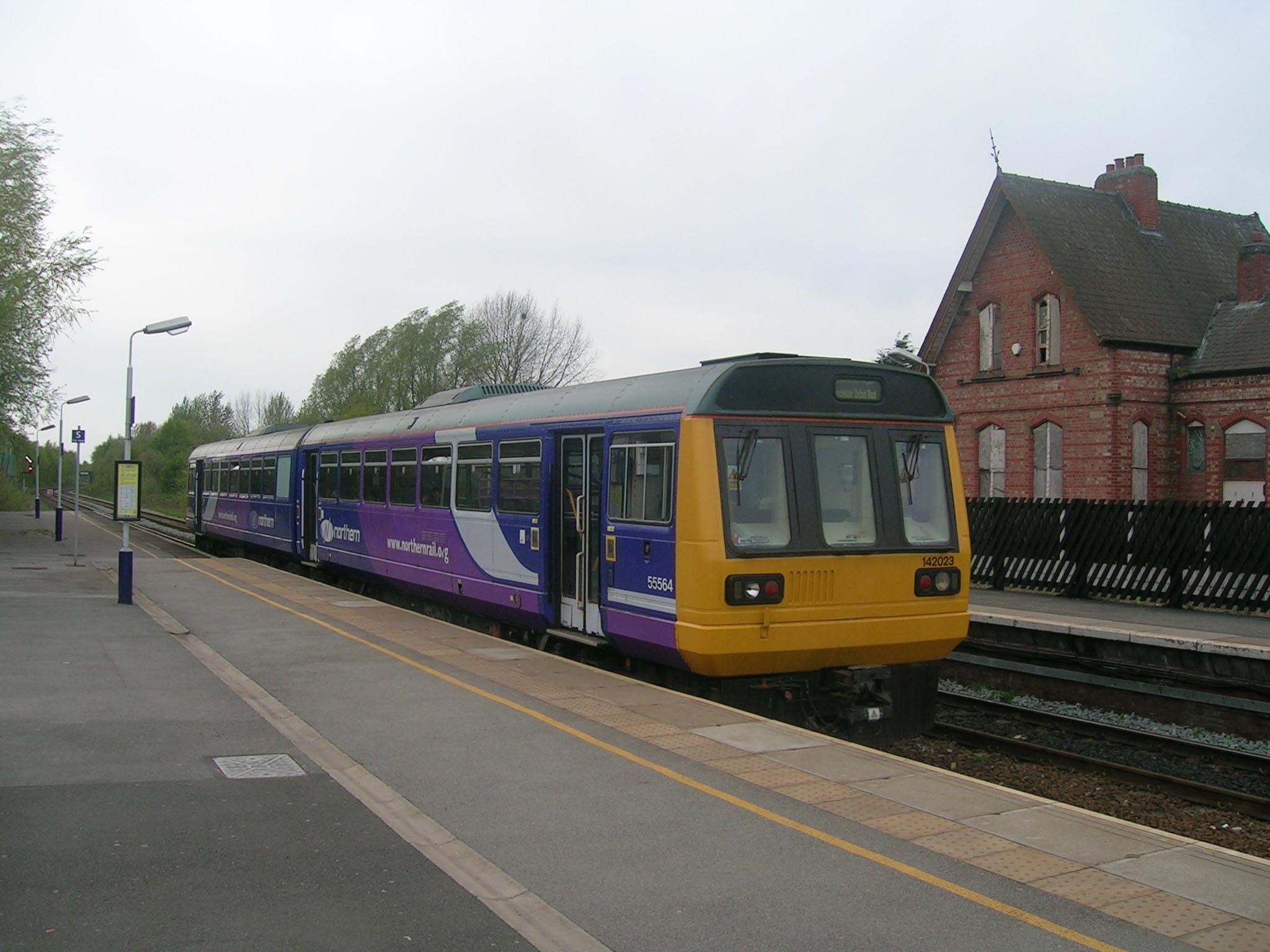 Liverpool-bound Class 142 seen here at Irlam Railway Station on Saturday 3rd May 2008.